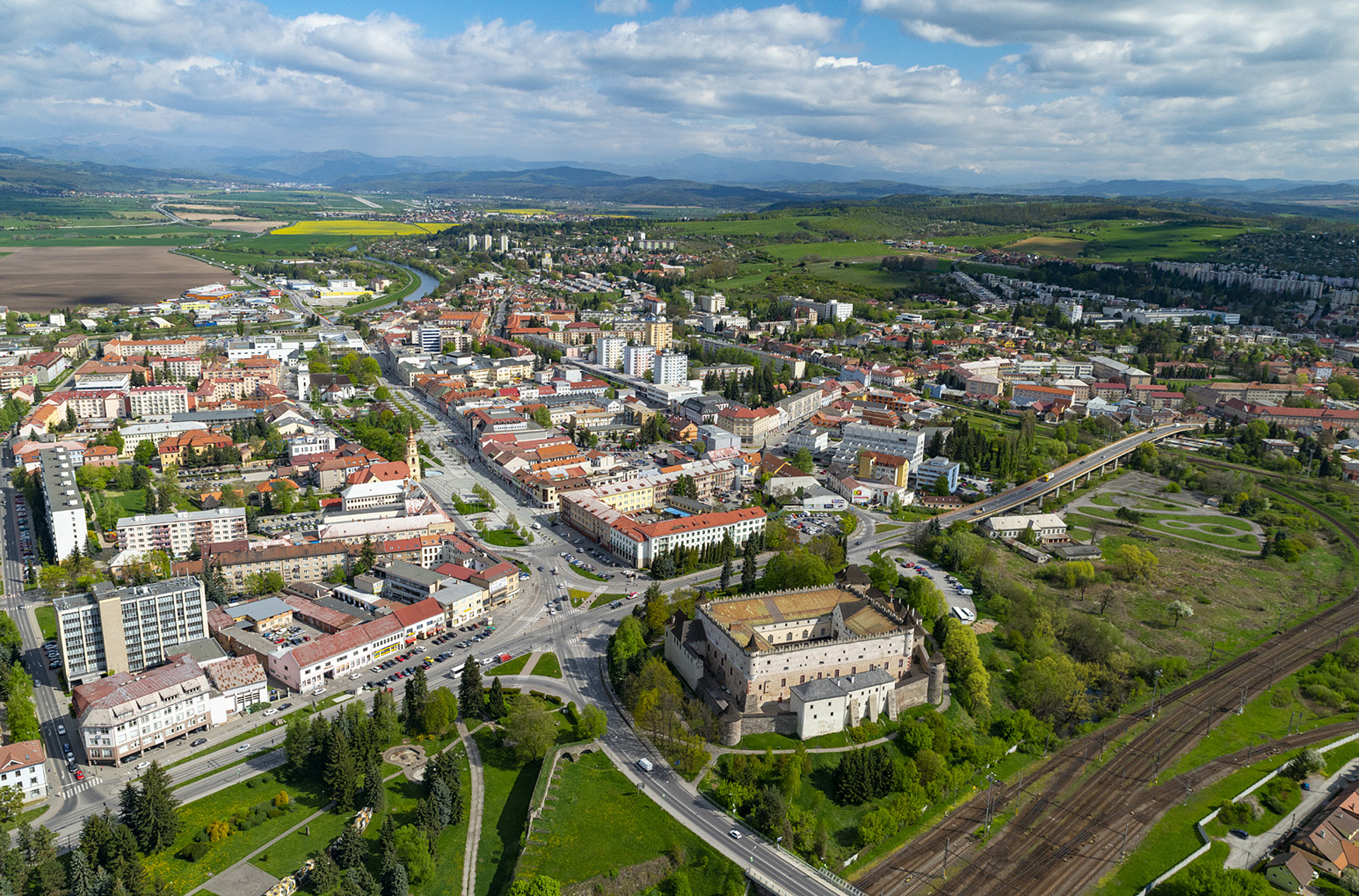 An aerial view of Zvolen town centre and its Zvolen castle (Zvolenský zámok) from the south.